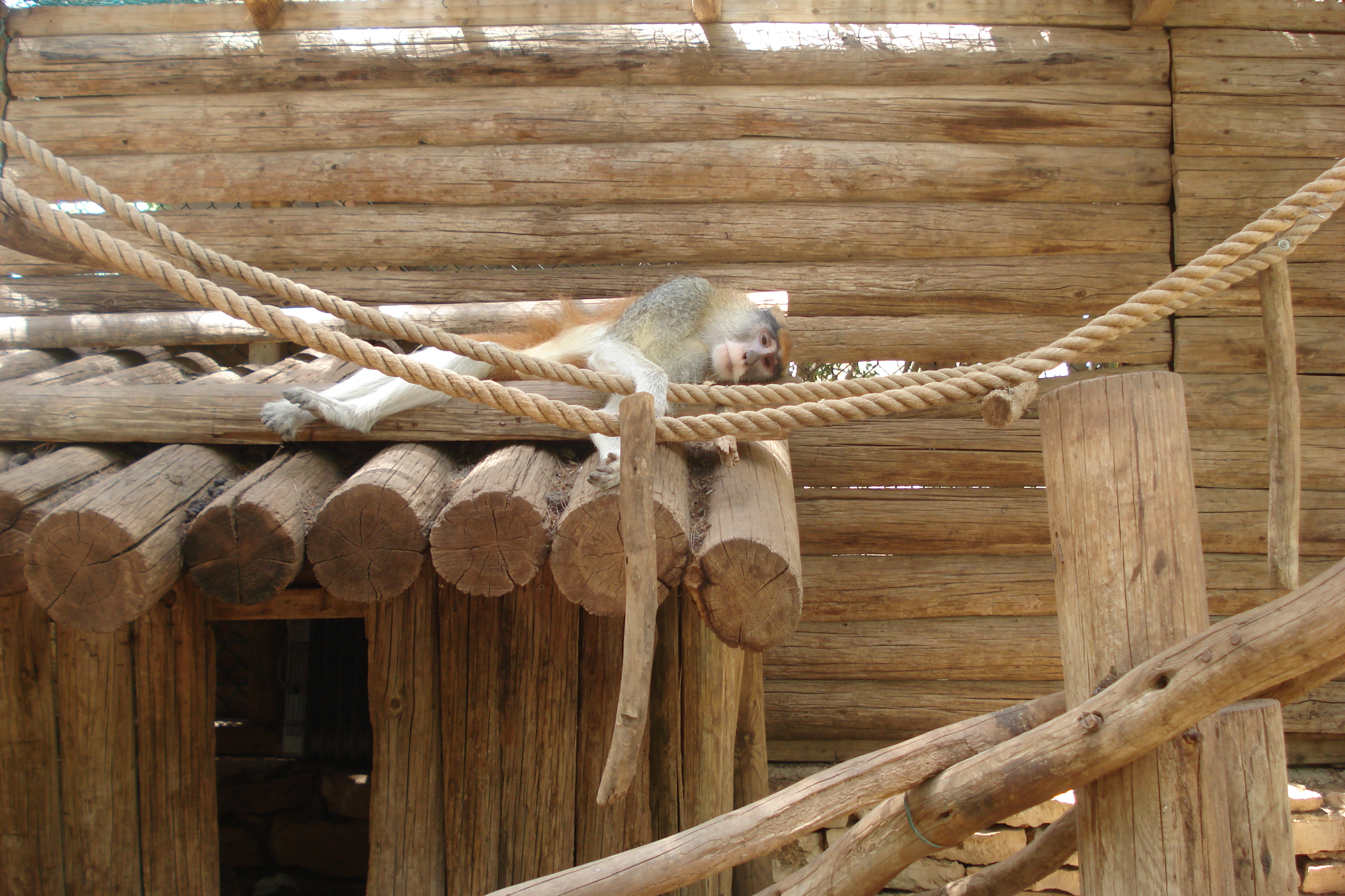 Wildlife and Plants of Israel